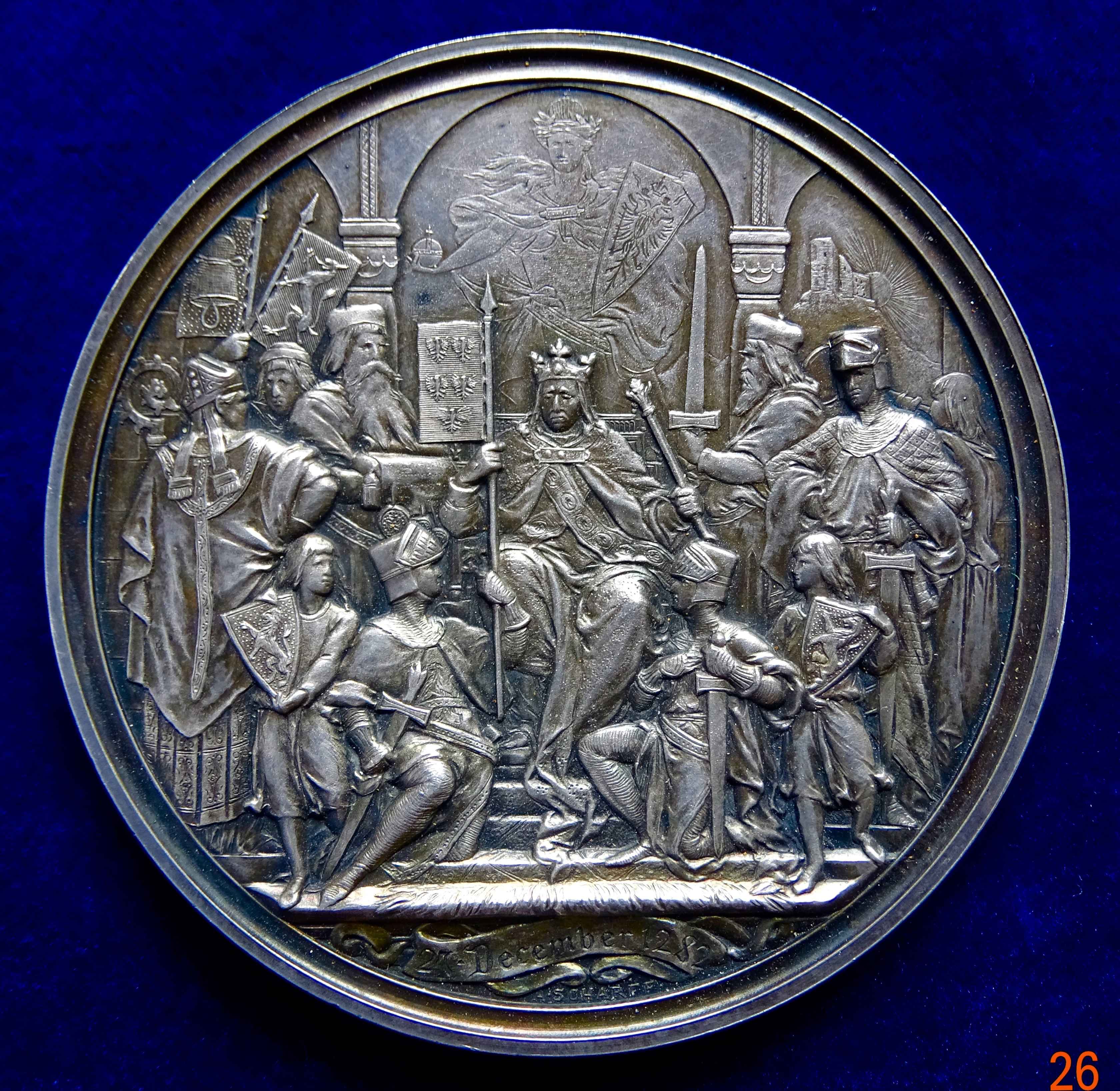 A rare medallion d. = 61 mm. 96.93 g Ag. Rudolf I of Germany, 1273 - 1291 At this Hoftag (imperial diet) Rudolf invested his sons, Albert and Rudolf II, with the duchies of Austria and Styria and so laid the foundation of the House of Habsburg. The King of Germany (King of the Romans) Rudolf I at the Hoftag in Augsburg. On scroll in exergue: "27. December 1282"/ 4 lines: "SECHS JAHRHUNDERTE MILDER HERRSCHAFT WOBEN EIN HEILIG BAND VM FVERST VND VOLK", surrounding: "* ZVR GEDENKFEIER DER BELEHNVNG HABSBVRGISCHER FVERSTEN MIT DEM STAMMLANDE OESTERREICH 27. DECEMBER 1882 *". Hallmark at edge: "A". Wurzbach 6926 (Bronze). Medallist: (Anton) Scharff, 1845 Wien, Austria - 1903 Brünn, the second largest city in the Czech Republic Condition: EXTREMELY FINE, beautiful old patina.